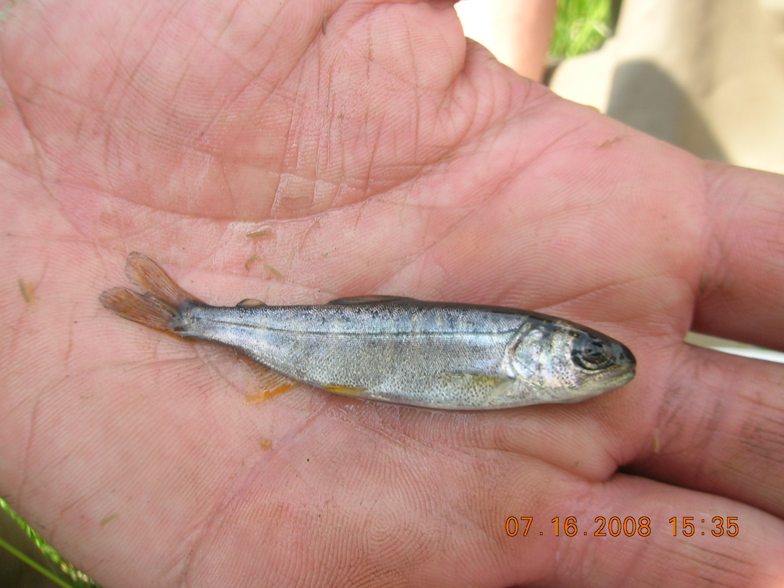 A young Chinook salmon (Oncorhynchus tshawytscha) in the Sawtooth National Recreation Area, Idaho